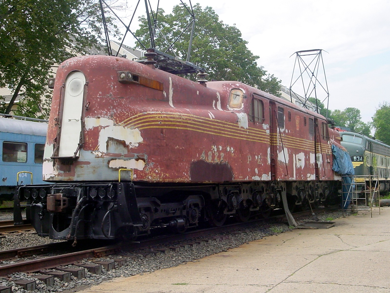 Pennsylvania Railroad GG1 #4877 at the New Jersey Transit station in Lebanon, New Jersey.